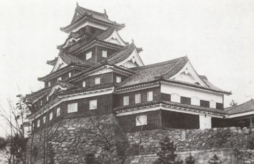 Okayama Castle Keep Tower (Before burnt out)